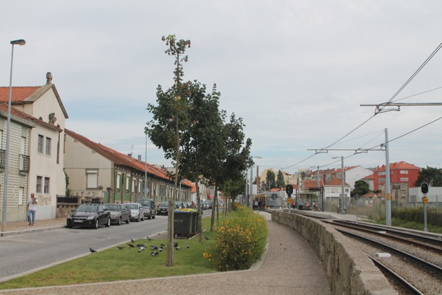 The Francos stop of the Metro do Porto